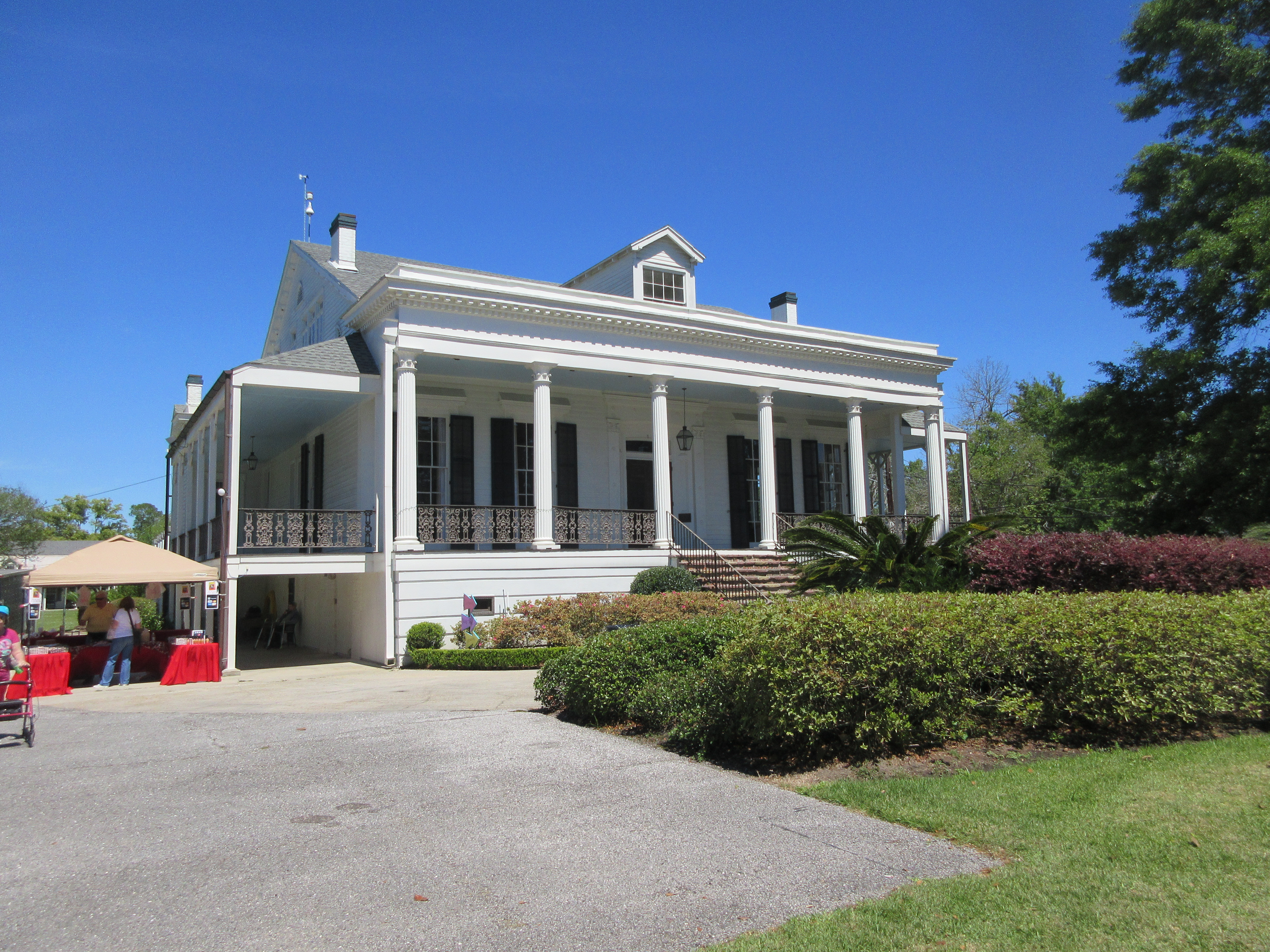 At the Whitehall Plantation House builiding on the campus of Magnolia School, Old Jefferson, Jefferson Parish, Louisiana, during Magnolia Fest 2017. Photo by Infrogmation of New Orleans, 1 April, 2017. Free reuse with attribution in accordance with cc-by-sa-4.0 license. Reuse without photographer attribution is a violation of copyright.